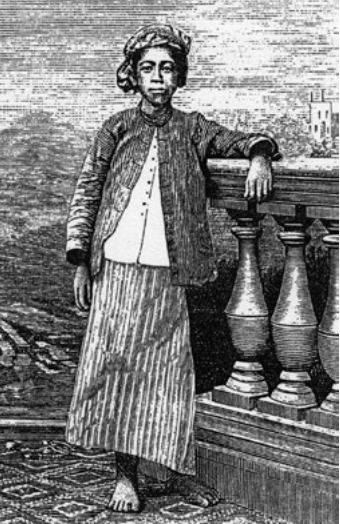 Crown Prince Lorenzo aged 12, drawing from a photograph taken in Surabaya, ca. 1871. From Heynen, F. C., 1876, Schetsen uit de Nederlandsch-Indische Missie: De Kerkelijke Staten op Flores